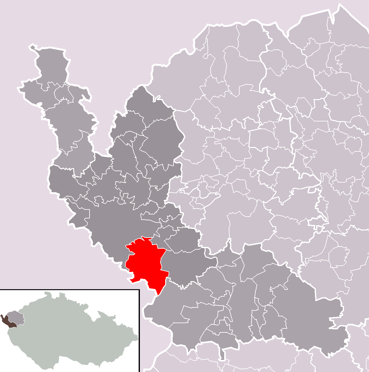 Location of Lipová municipality within Cheb District and administrative area of Cheb as a Municipality with Extended Competence.